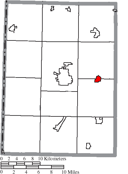 Map of the municipal and township boundaries of Preble County, Ohio, United States, as of the 2000 census, with the location of the village of West Alexandria highlighted. Township borders are shown only in unincorporated areas in order to differentiate incorporated and unincorporated areas more clearly.